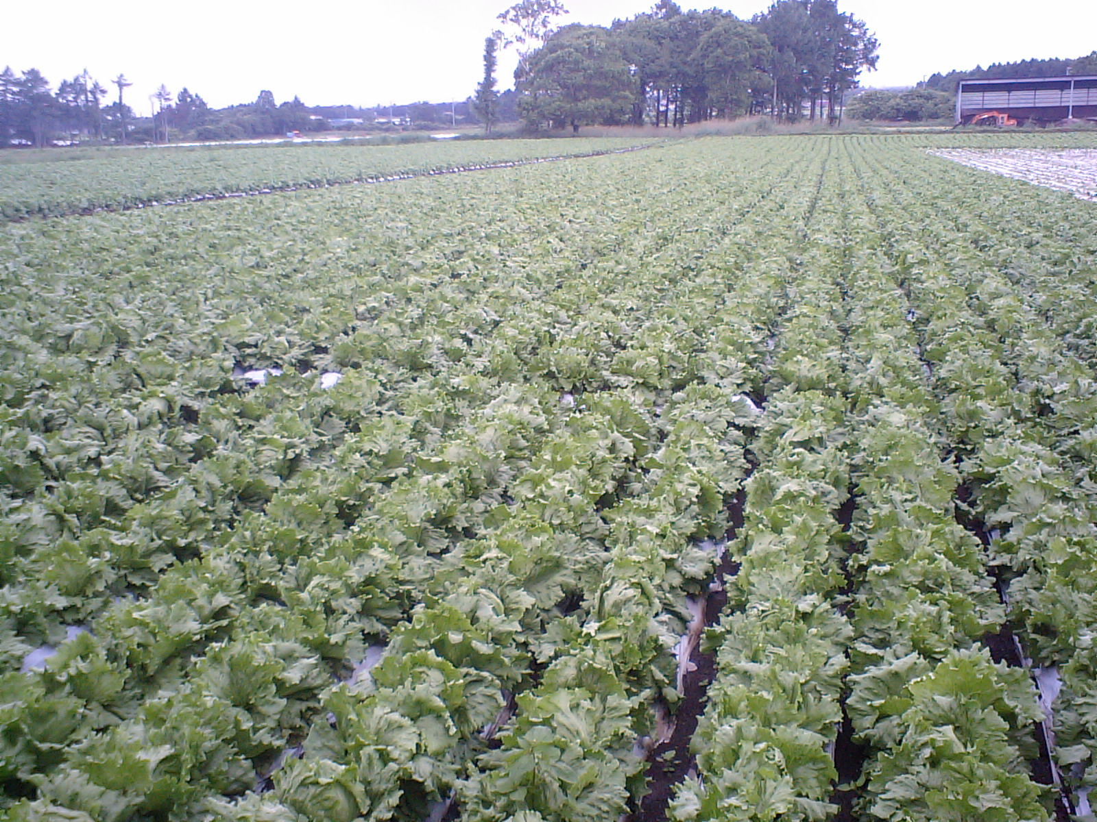 This is the landscape of Nobeyama.These are lettuce fields.